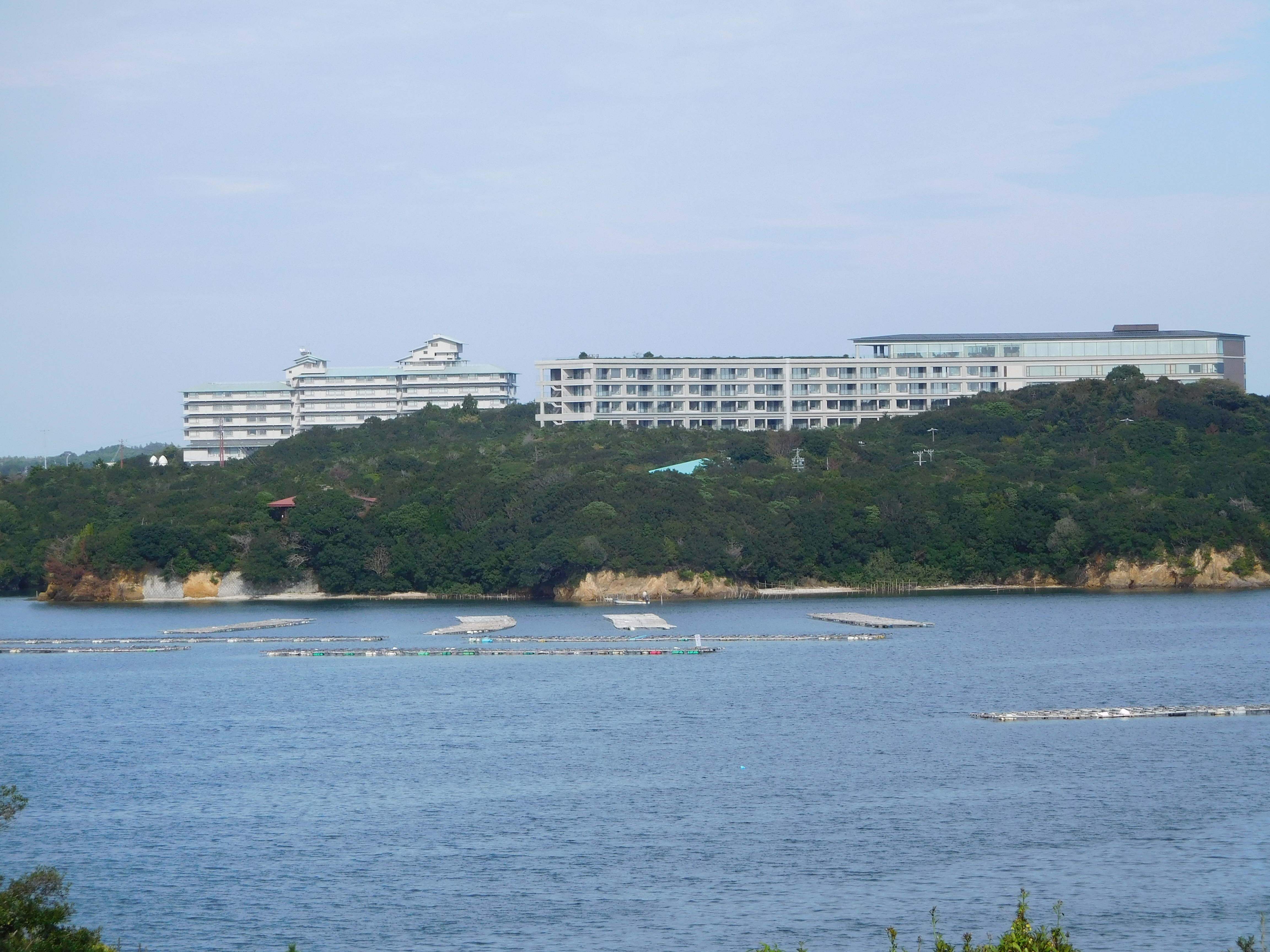 This is Shima Kanko Hotel, viewed from Shima Mediterranean Village.